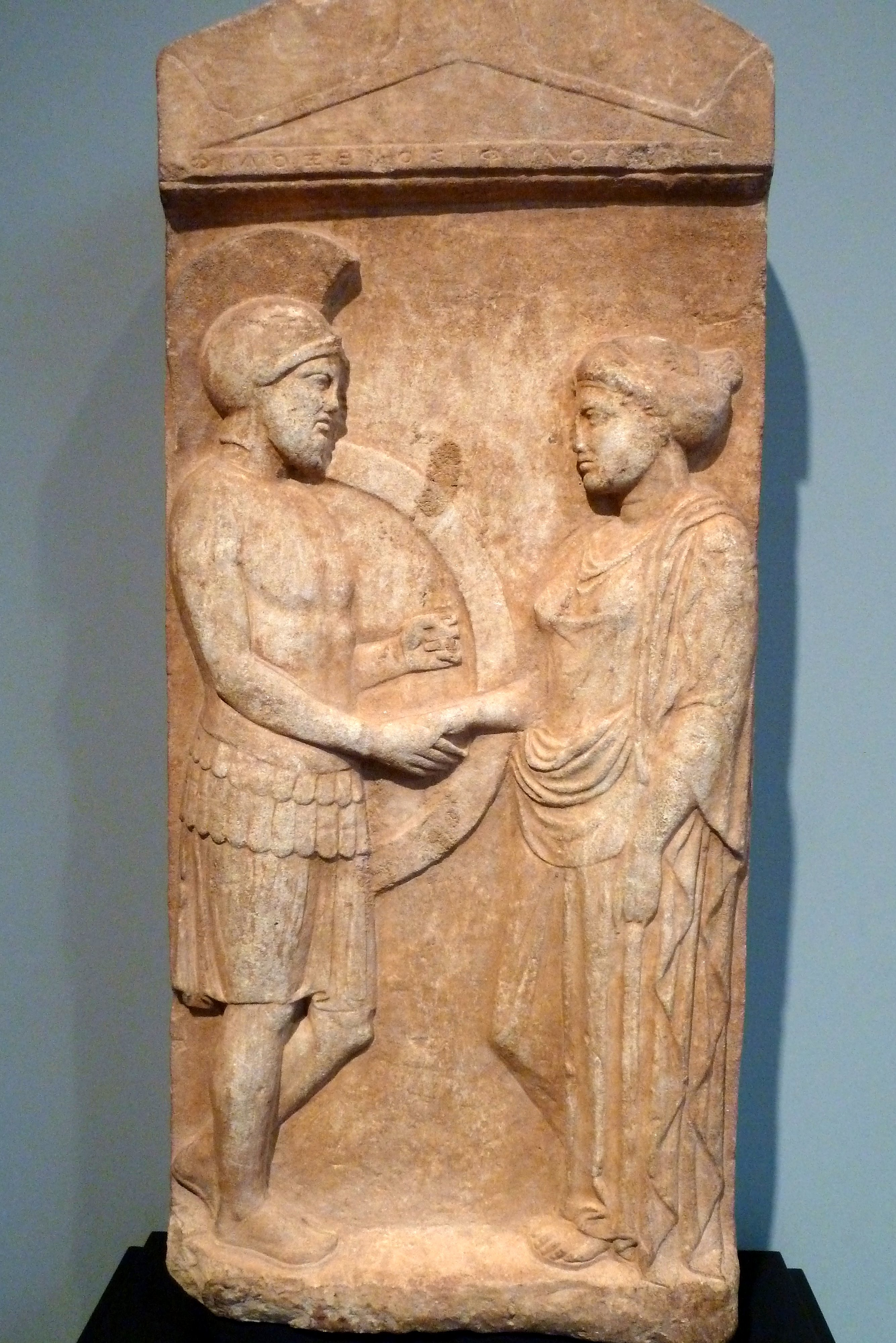 Gravestone of Philoxenos and Philoumene (Greek, from Athens, c. 400 BC.)